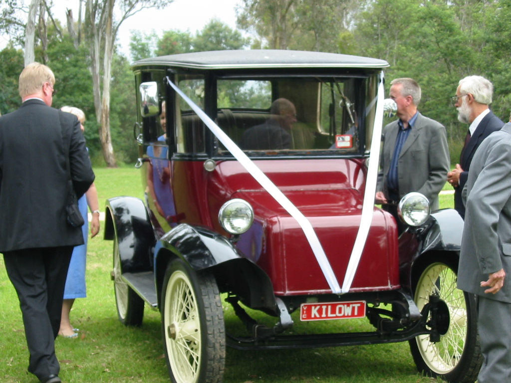 Detroit Electric Car used to drive the bride at the wedding of Richard Brent and JudyAnn Osborne.